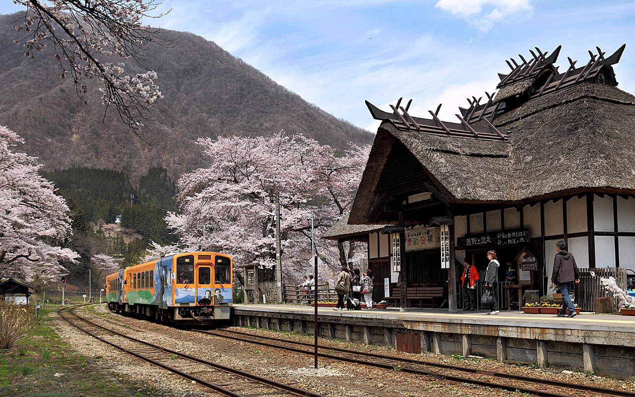 Aizu Railway Yunokami-Onsen Station